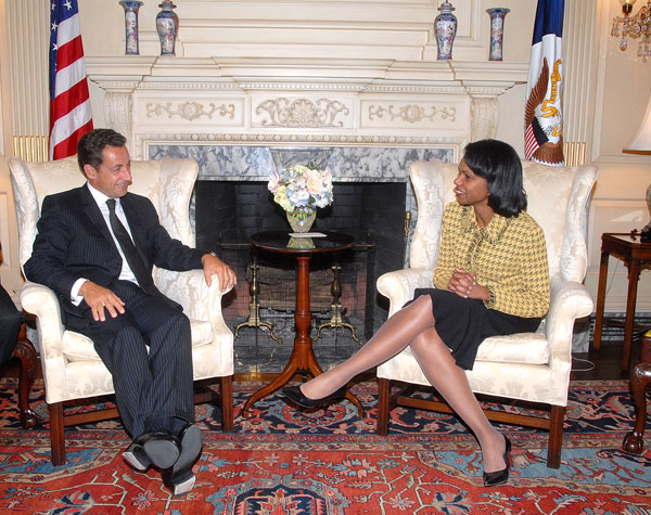 Secretary Rice with His Excellency Nicholas Sarkozy, Minister of Interior of the French Republic after their bilateral at the Eisenhower Executive Office Building